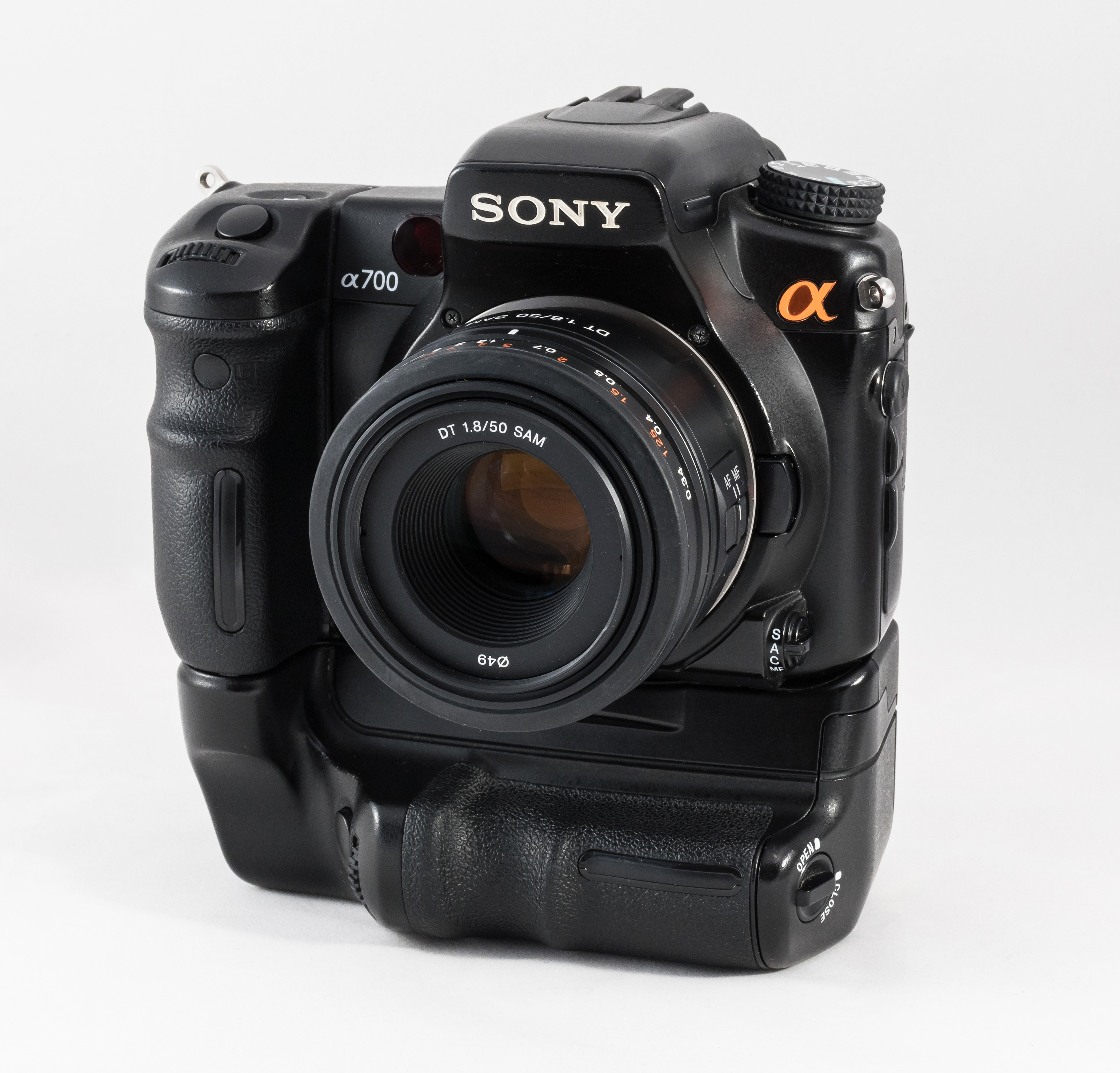 Sony DSLR-A700 with battery grip N50